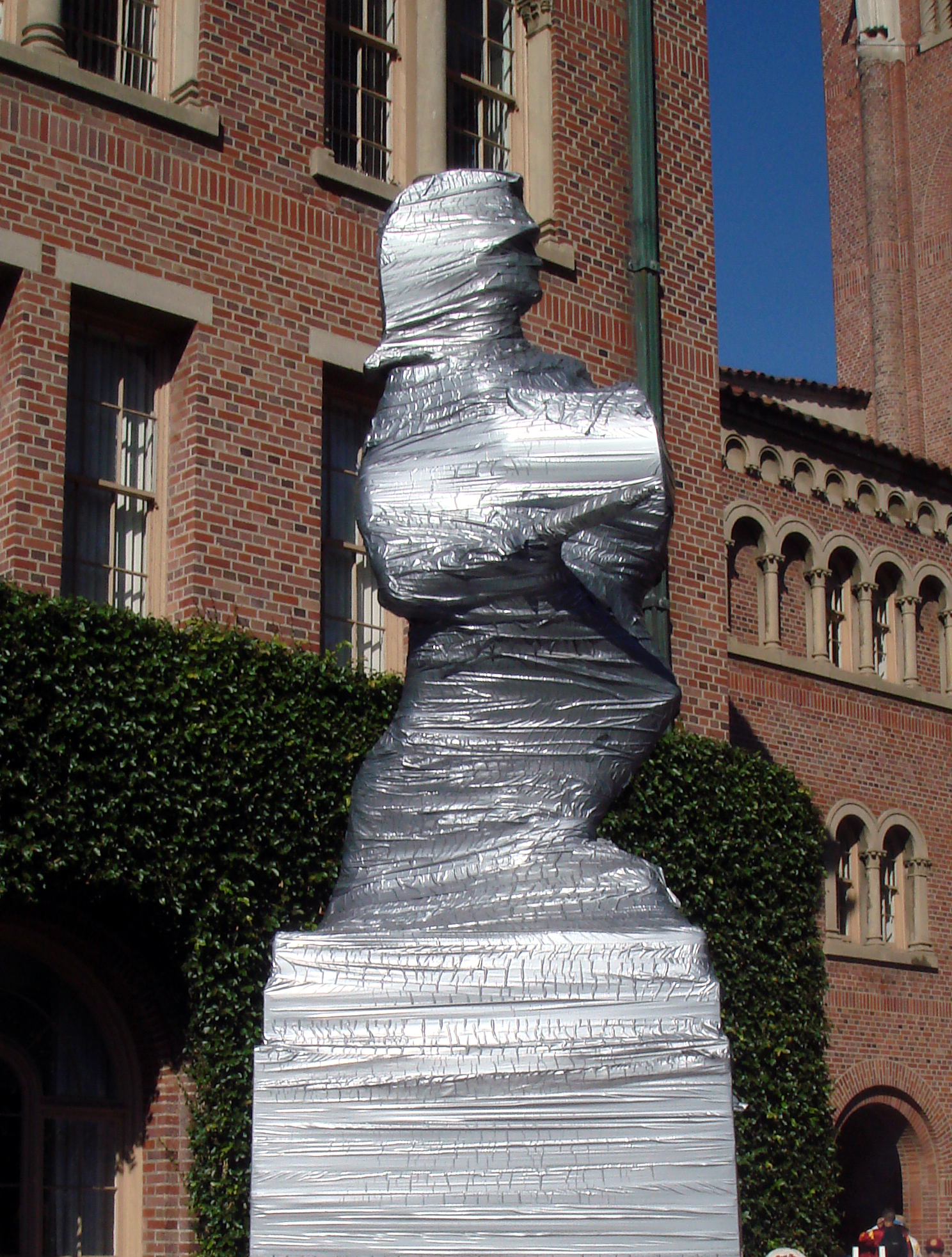 Trojan Shrine (aka "Tommy Trojan") wrapped in duct tape during UCLA rivalry week on the campus of the University of Southern California in Los Angeles, California